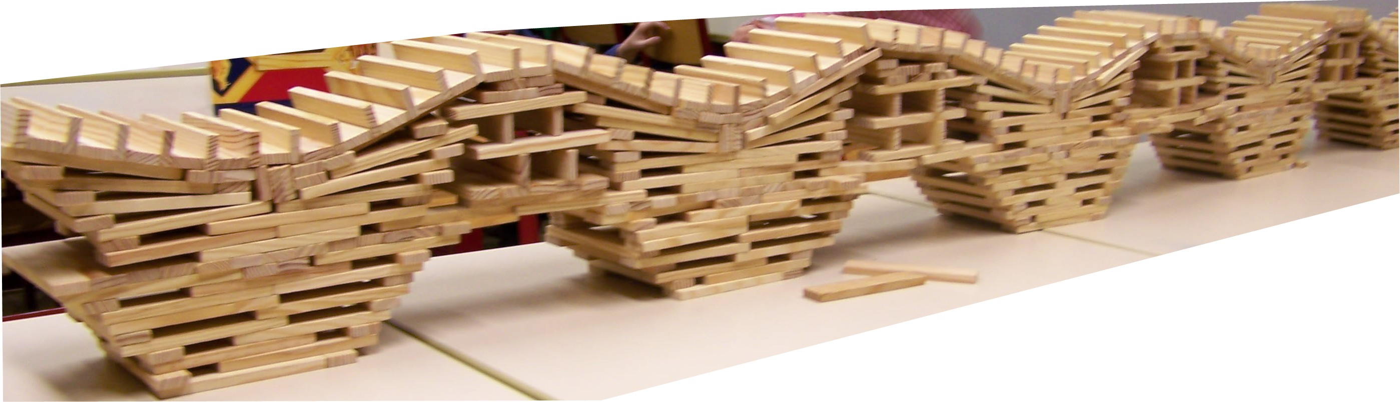 My Own Work